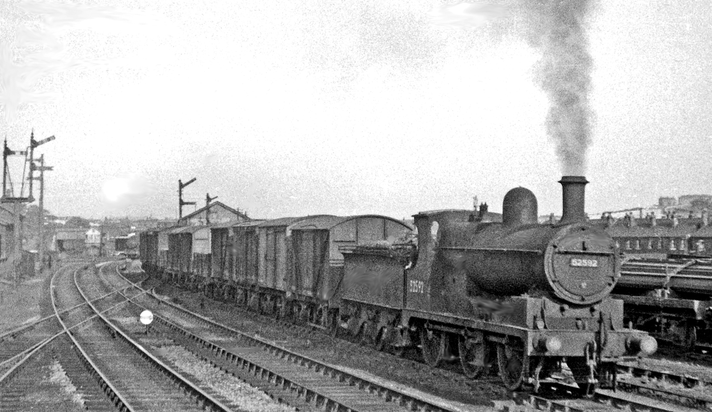 Ex-L&Y 0-6-0 shunting at Thornhill. View eastward from a train westbound on the Calder Valley (Normanton - Wakefield - Mirfield - Todmorden - Manchester) main line, near Thornhill (for Dewsbury) station. No. 52592 is an Aspinall/Hughes Class 28 4F 0-6-0 (built c. 1900, rebuilt c. 1914, withdrawn 8/54).